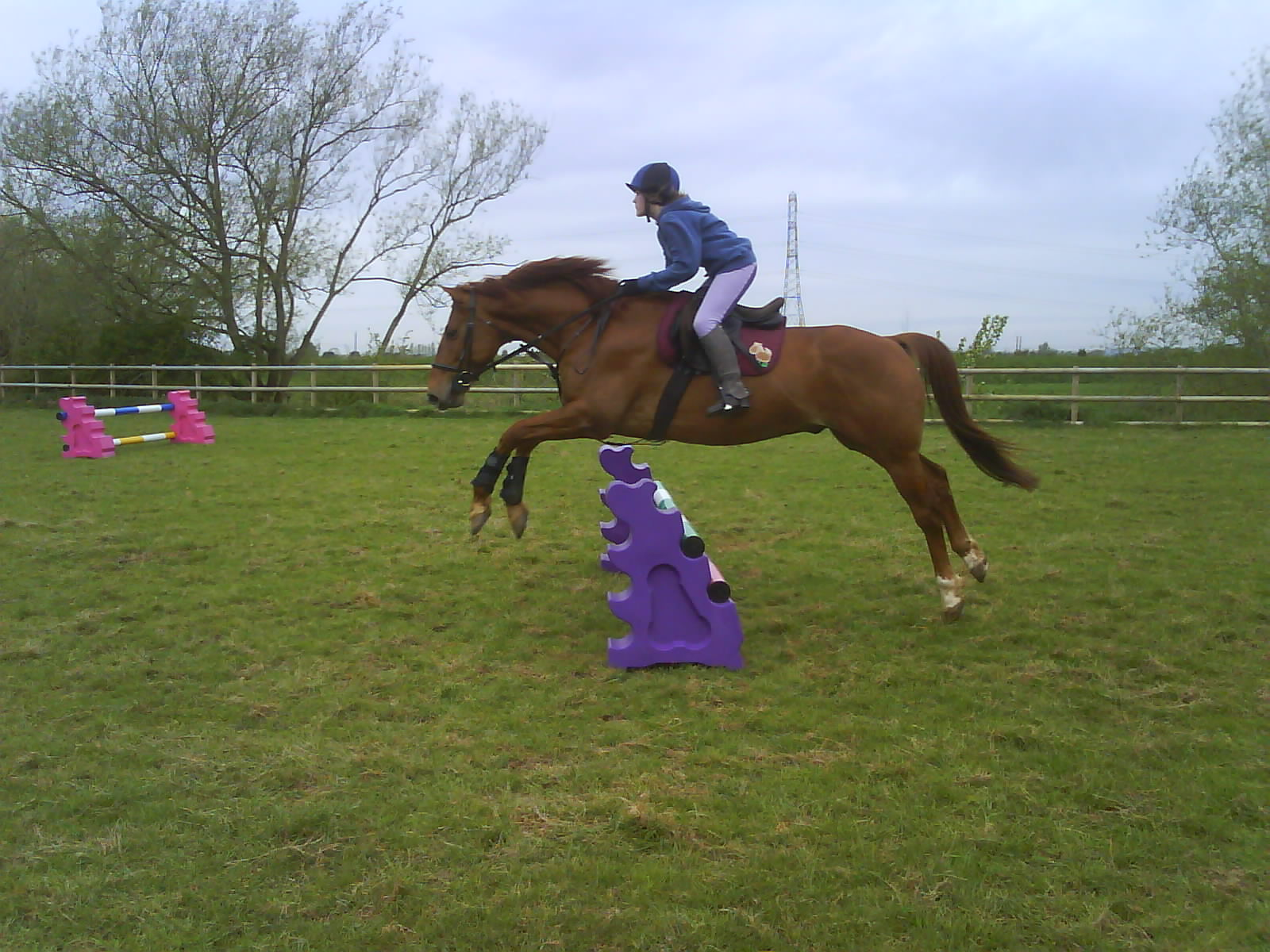 Evie Gullis jumping her horse Simba